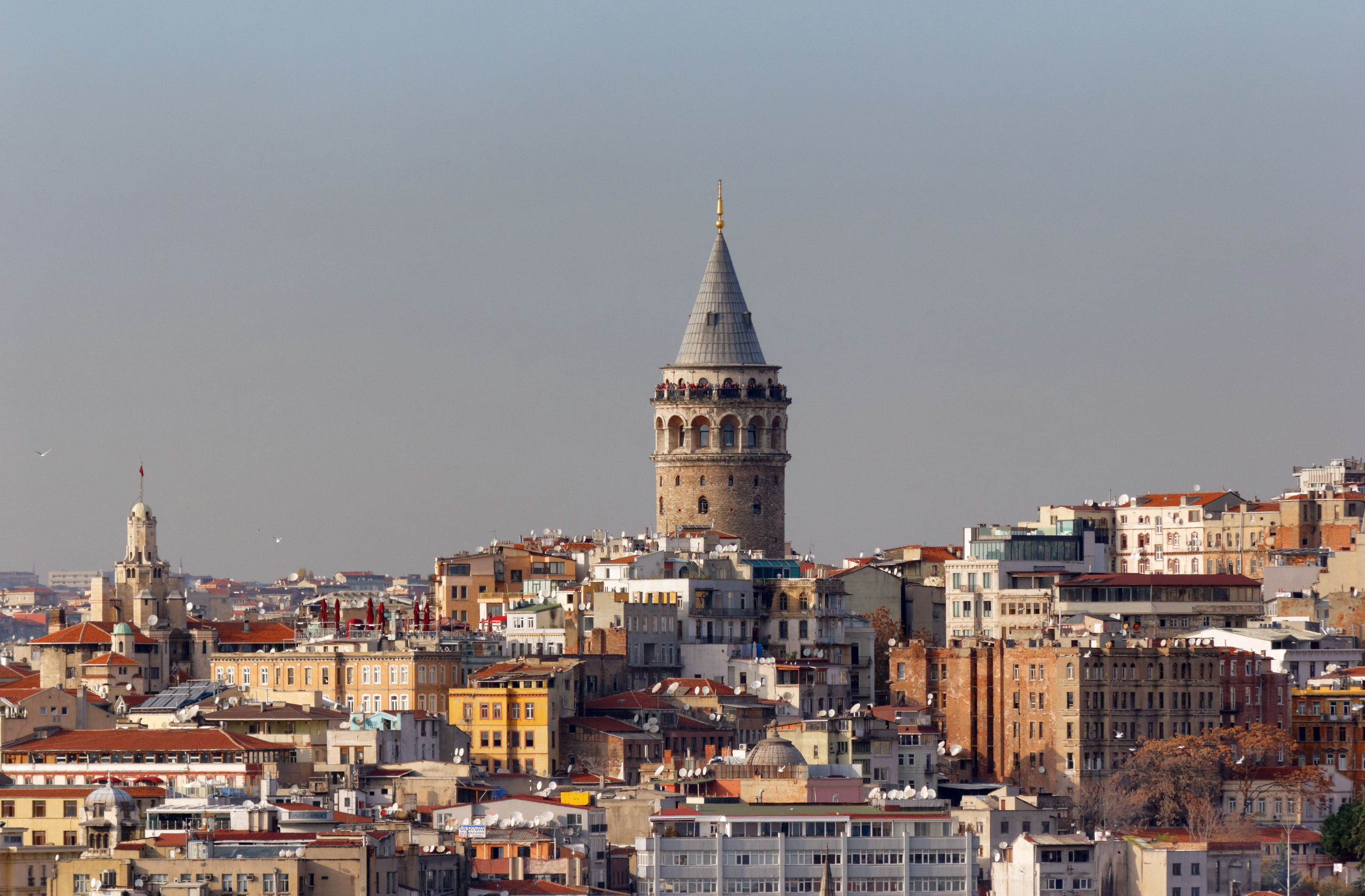 Istanbul. Galata Tower